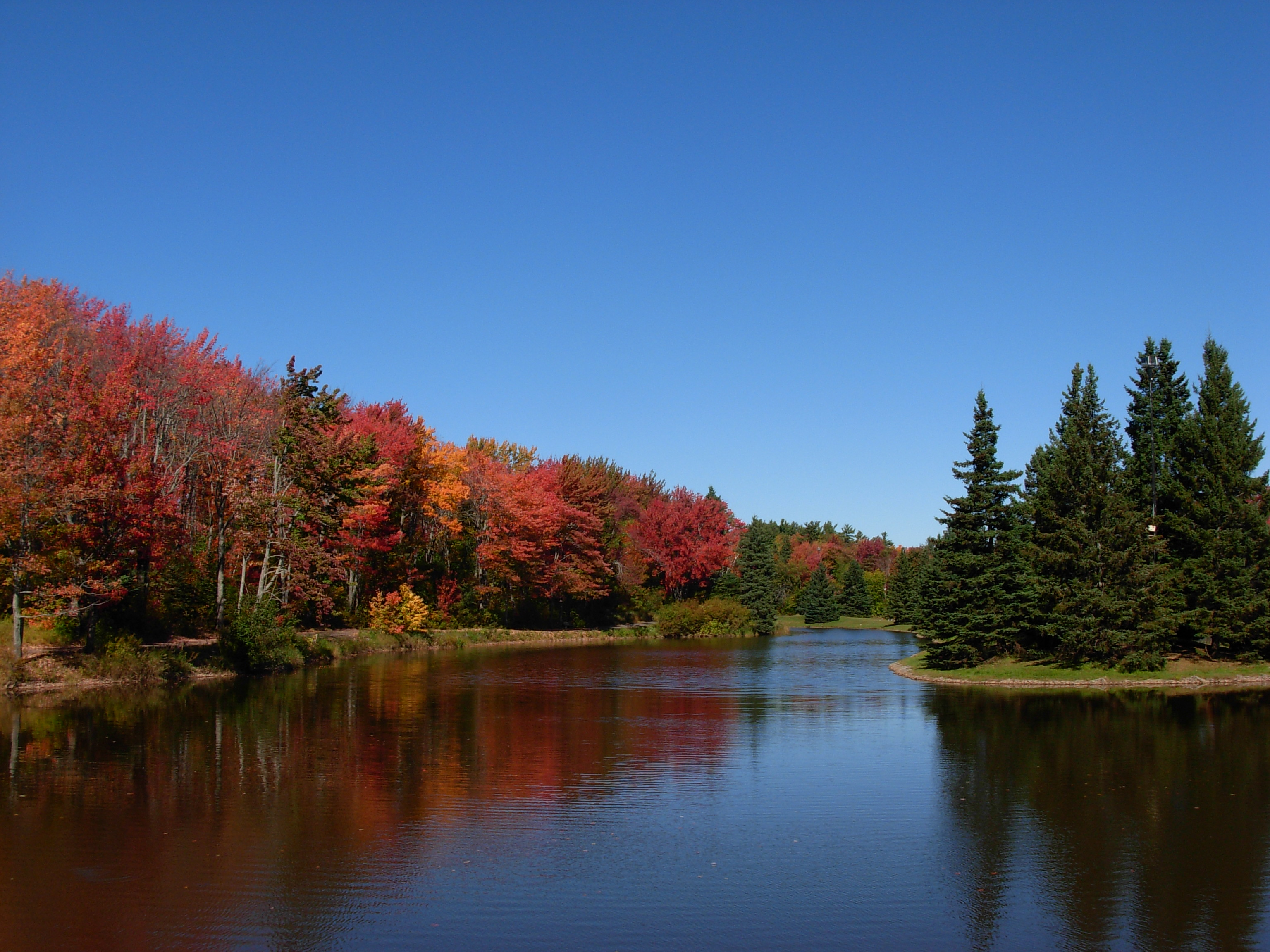 Moncton, New Brunswick Autumn In Monctons Centennial Park